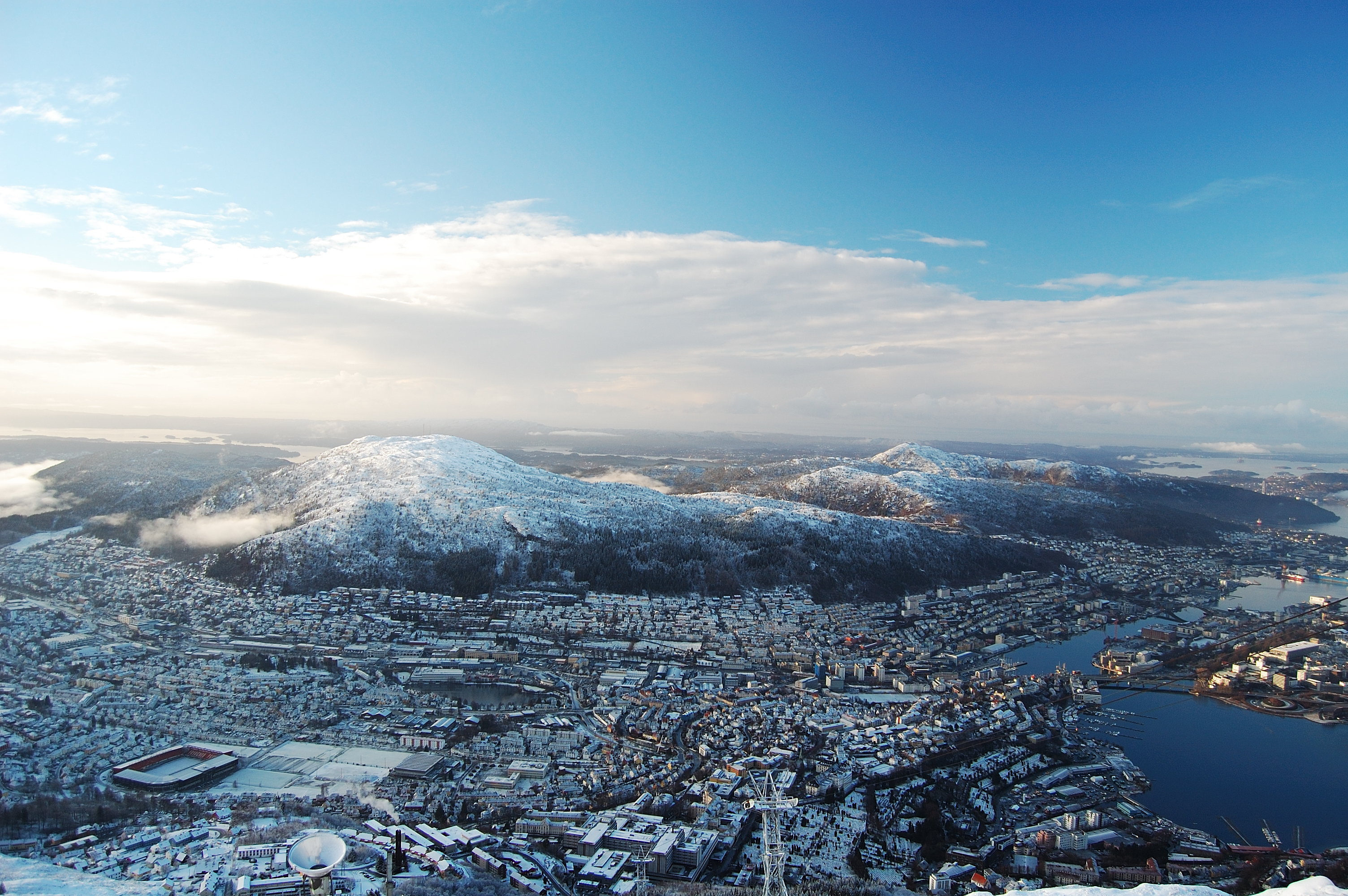 A view of Bergen from Ulriken mountain.